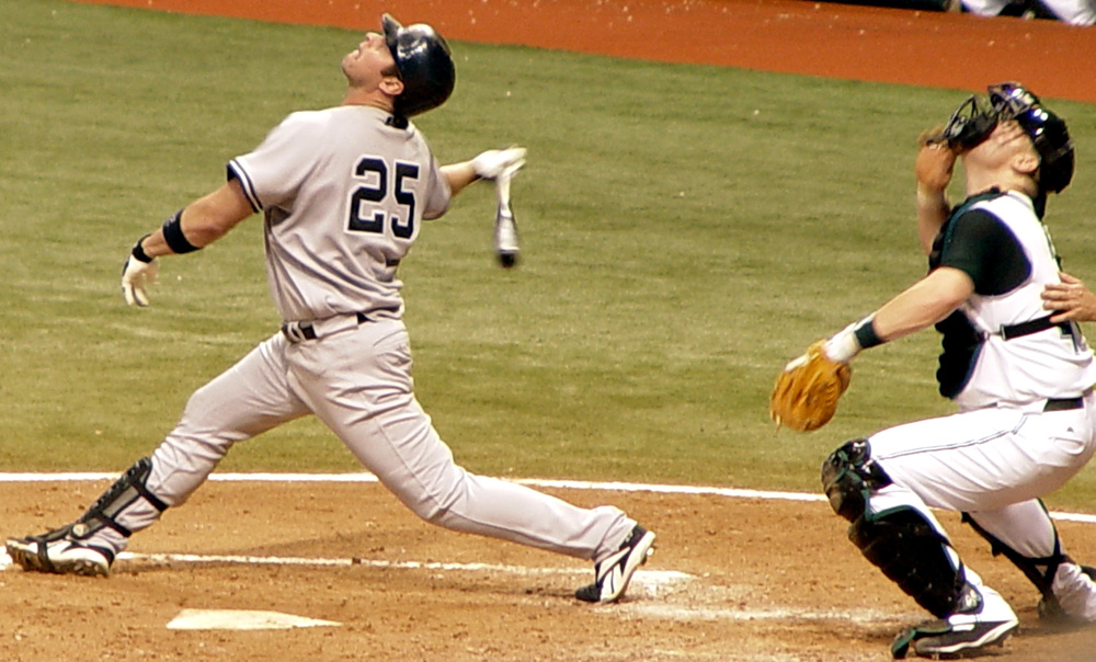 Jason Giambi looks to see where a pop-up goes. 12:45, 15 September 2005 . . Googie man . . 1000×604 (264,299 bytes)